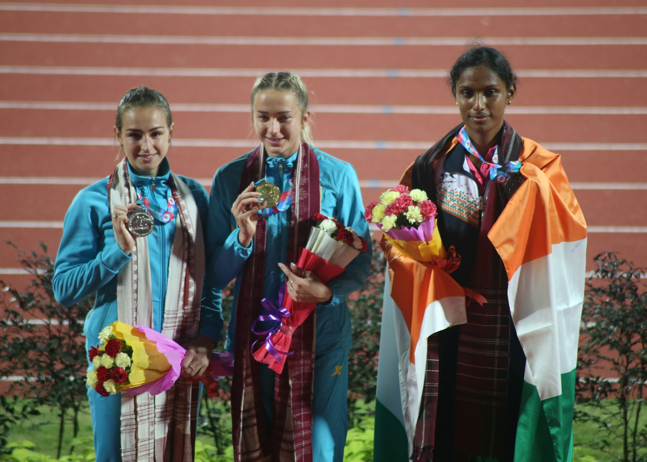 2017 Asian Athletics Championships at the Kalinga Stadium in Bhubaneswar, India